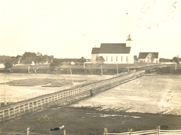 First Immaculée-Conception church (1869-1898) in Pokemouche, New Brunswick.